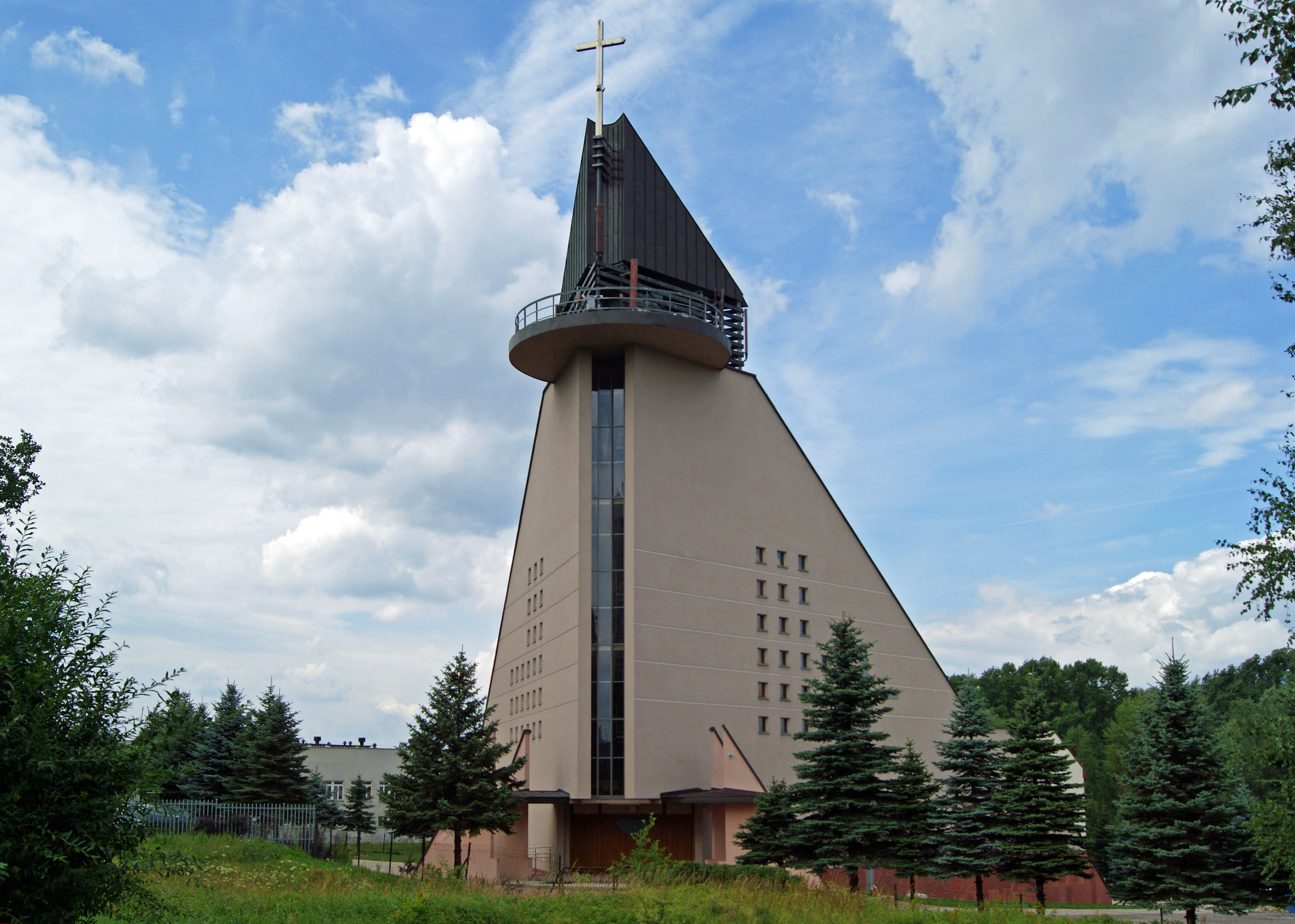 Church of the Visitation of the Blessed Virgin Mary (2000 design. by Krzysztof Filus), 6 S. Wyszynskiego street, Krakow, Poland